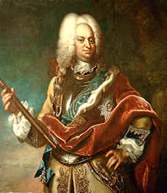 Portrait of Prince Charles of Denmark (1680-1729), youngest son of King Christian V of Denmark and Queen Consort Charlotte Amalie